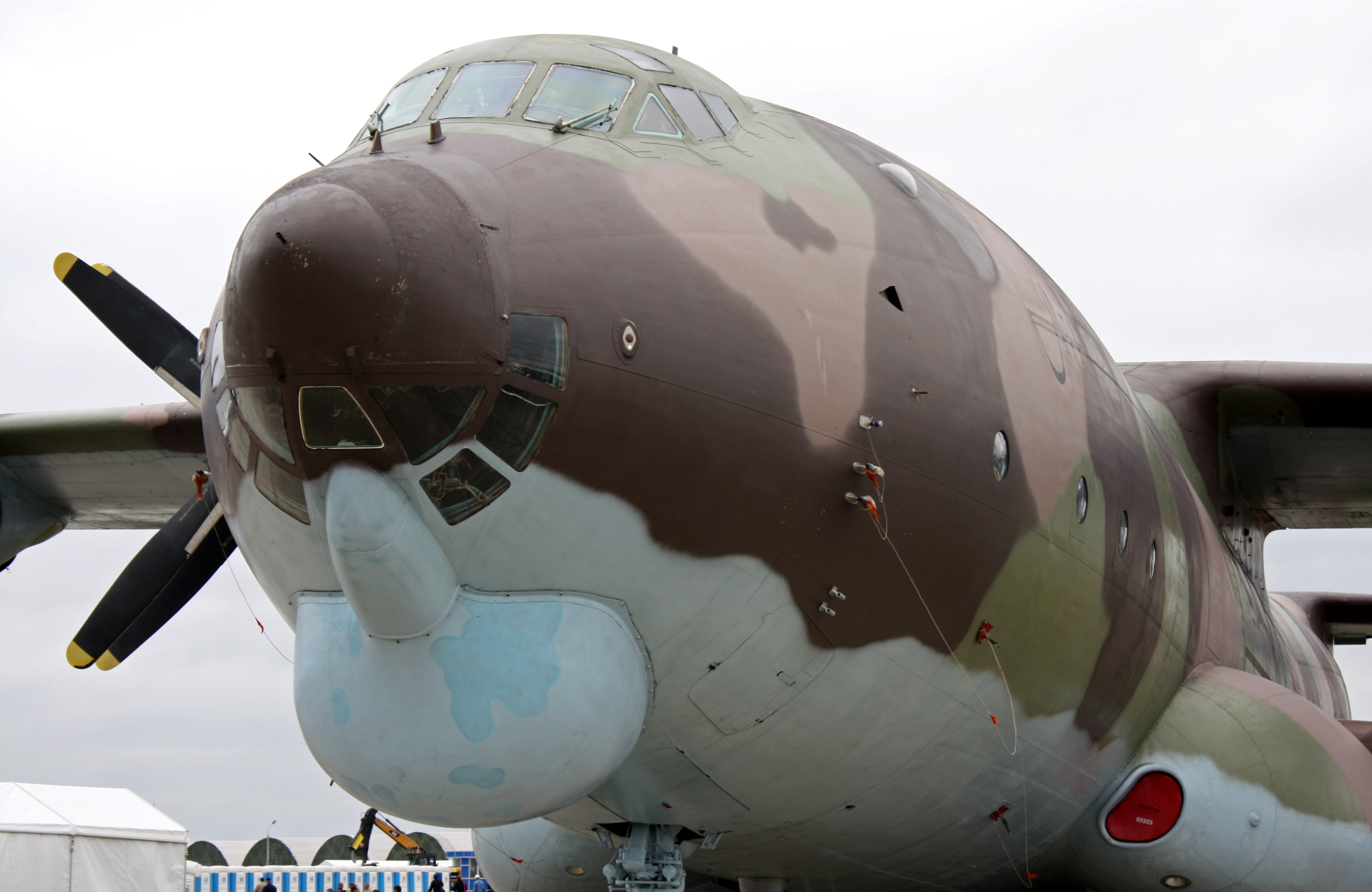 Antonov An-22 "Antaeus" (The international aerospace salon MAKS-2009)